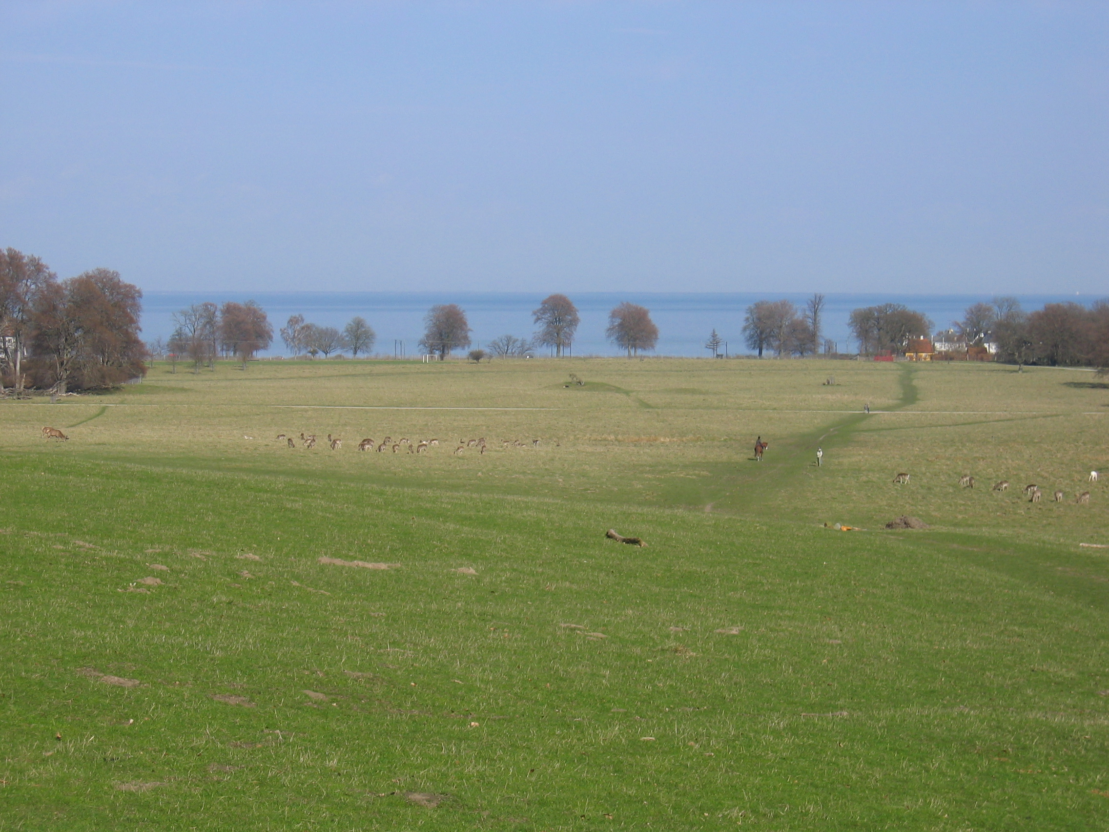 View from Eremitage castle of the Eremitageplain towards Oresund, Jægersborg Deer Park, Denmark.